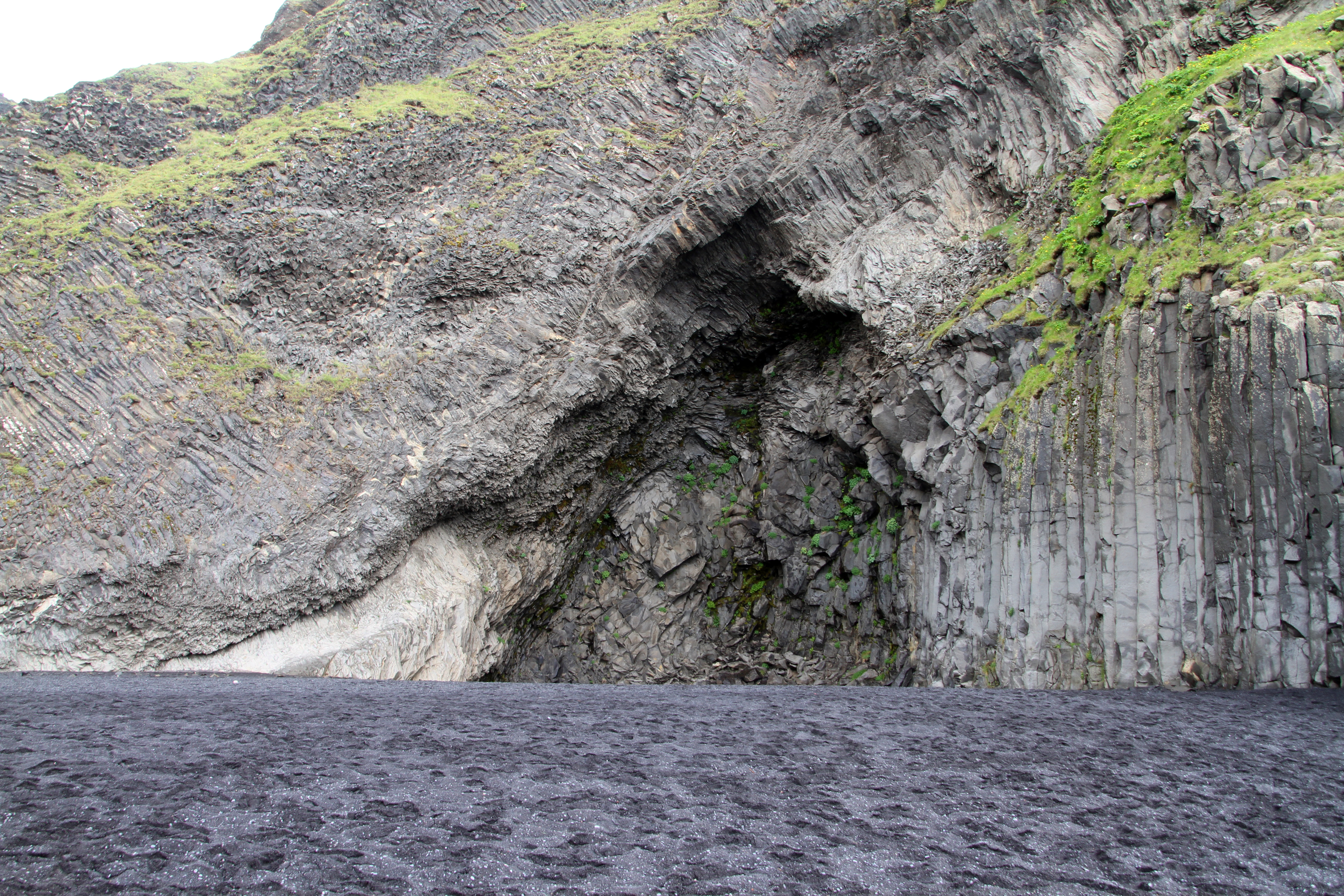 Columnar basalts at Reynisfjara